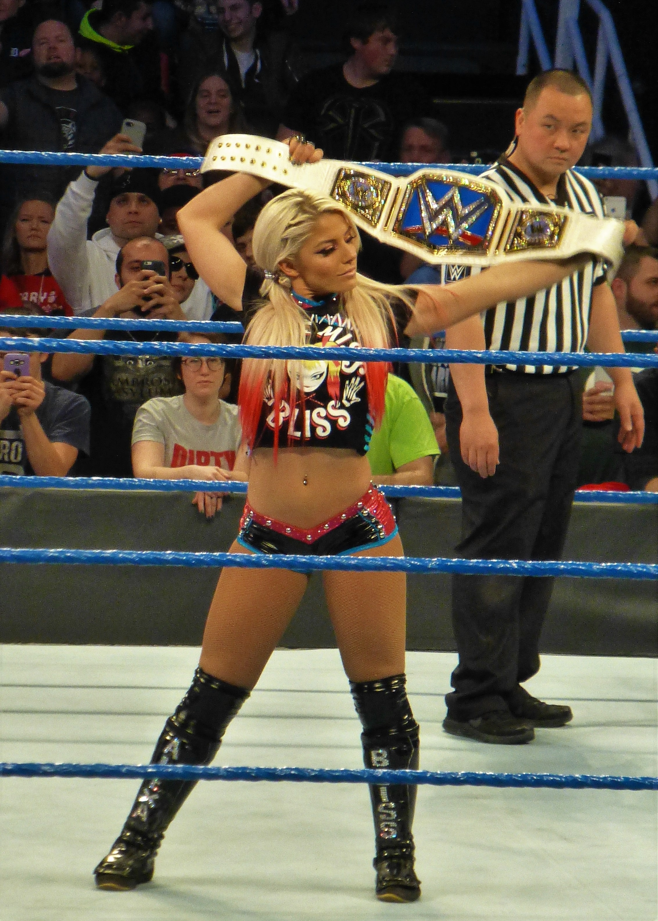 WWE Smackdown Women's Champioship Alexa Bliss at WWE's Event Shakedown 50 in December, 2016.